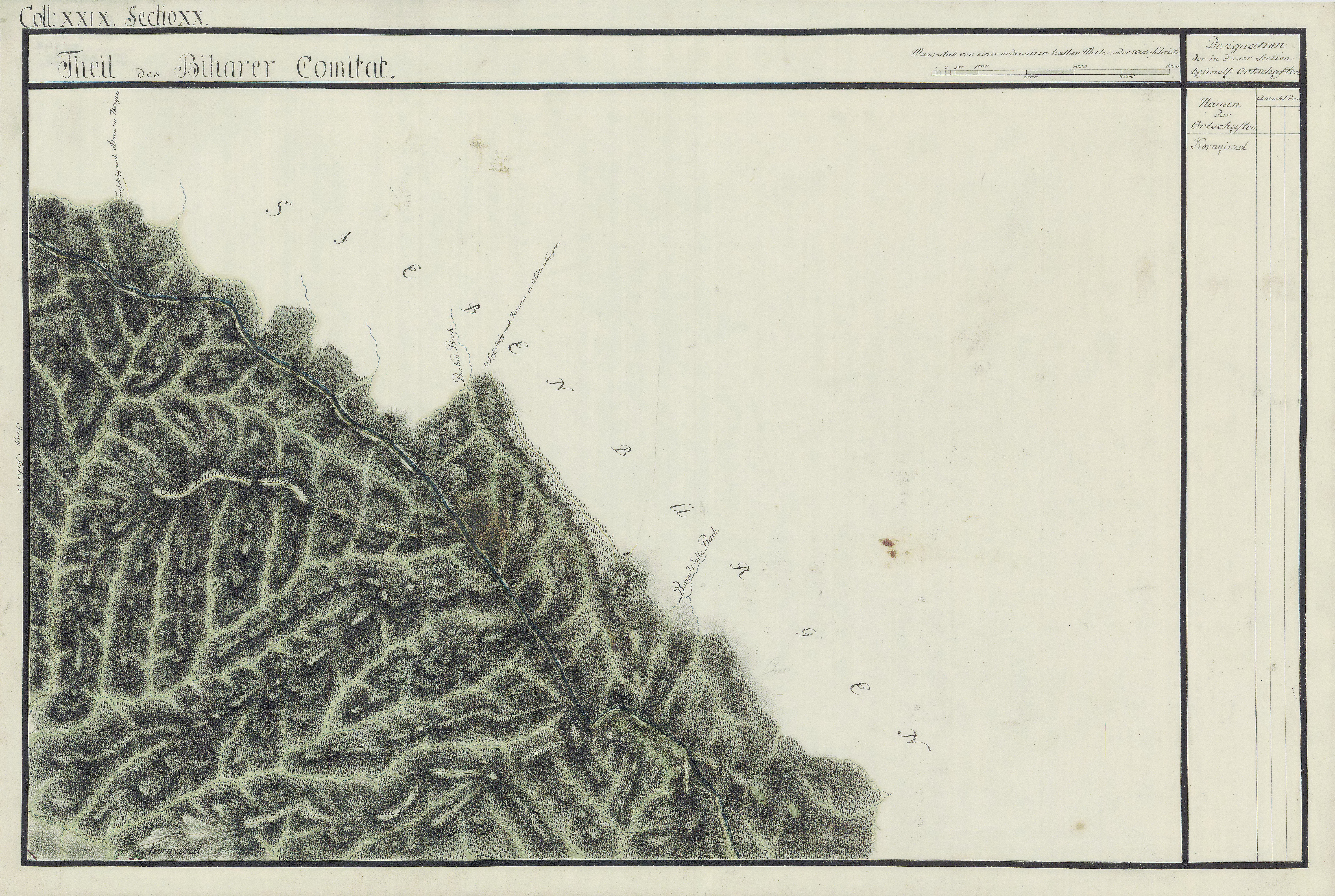 Bihor County, 1782-85. Josephinische Landesaufnahme pg.29-20